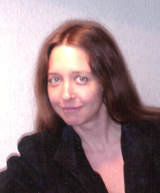 Fiona Kelleghan photographed by Sybok in West Palm Beach, Florida